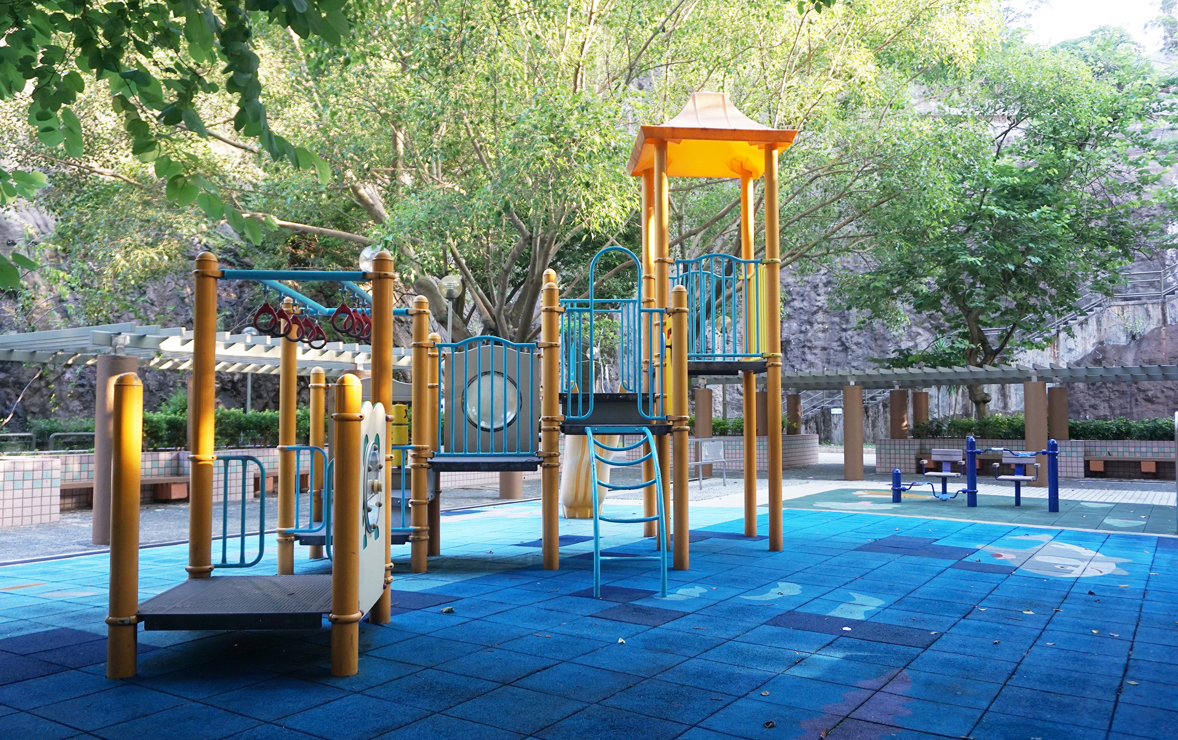 Shek Lei Estate in Kwai Chung, Hong Kong.